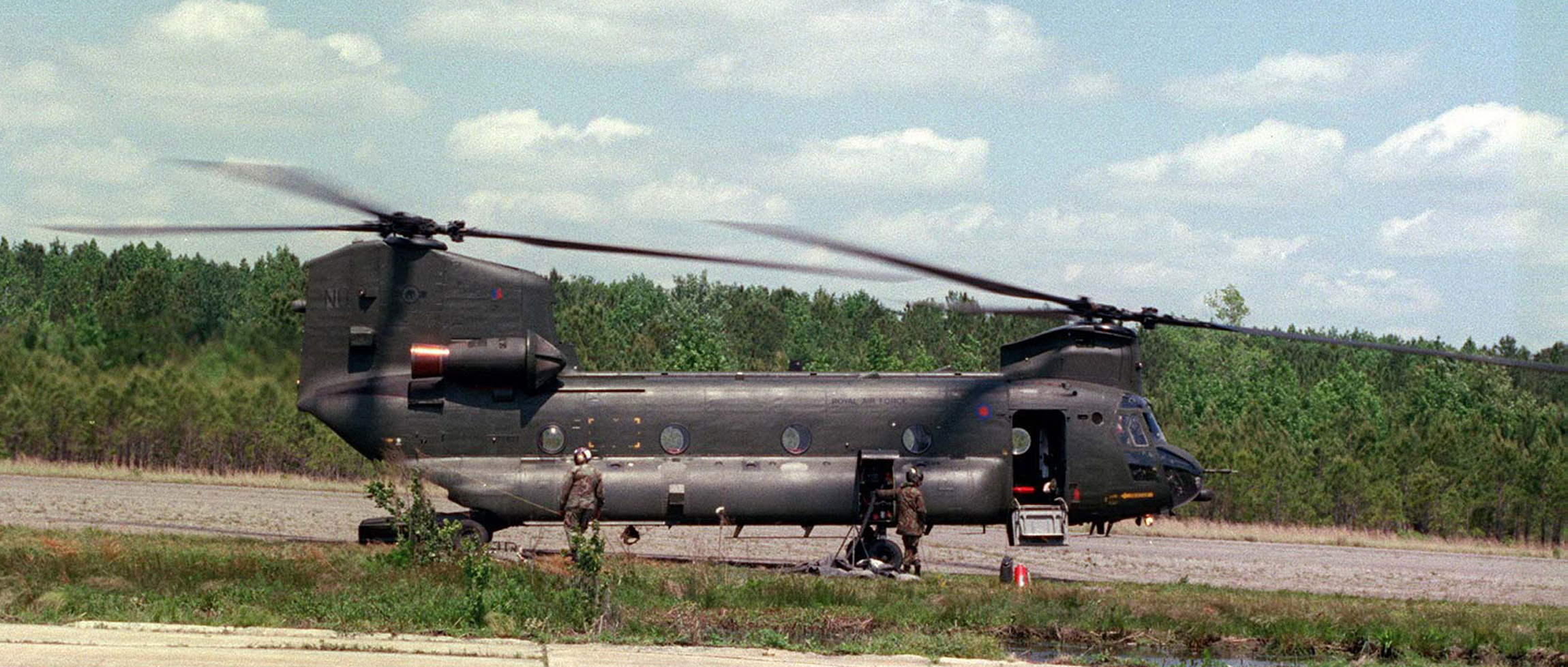 The Royal Air Force Chinook, sits on the flightline warming up on the Airfield. Combined Joint Training Field Exercise (CJTFEX) 96. In Camp Davis, North Carolina (NC) United States of America.